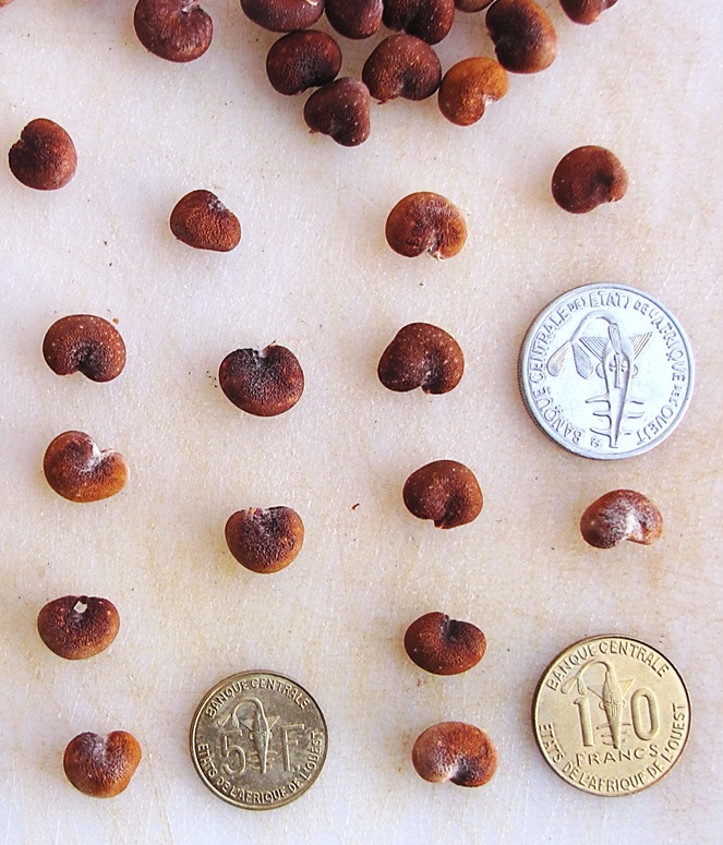 Detail of seeds from the fruit of the Adansonia digitata baobab, Senegal. Unusually, the chunky whitish fruit pulp is very dry, but when soaked and rinsed with water the dry pulp quickly dissolves to expose the dark brown seeds. Size compared to West Africa CFA coins. Measured at 1.2 cm - 1.3 cm in length. Brown in color overall, any white patches still visible are remnants of undissolved pulp.